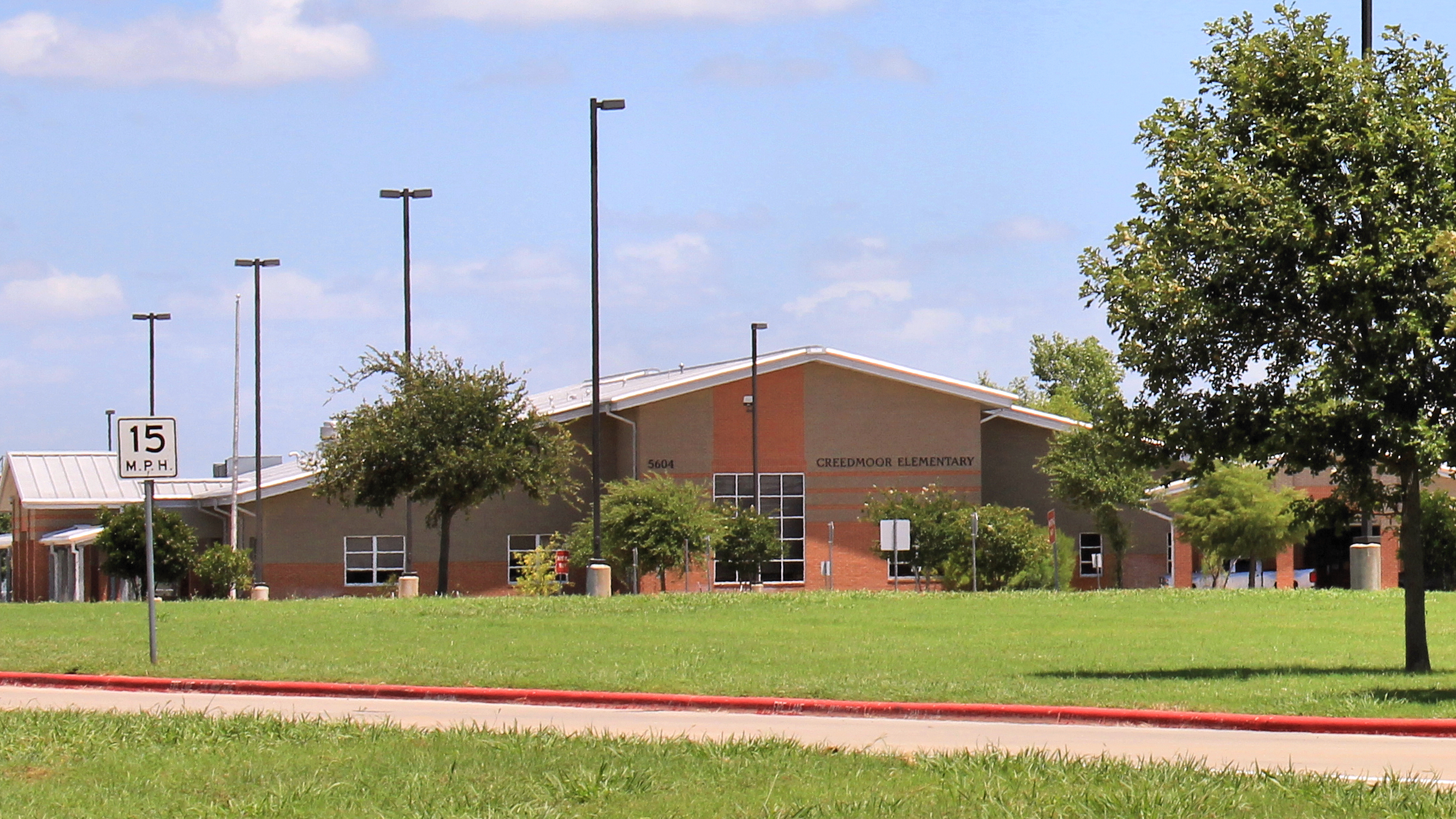 Creedmoor Elementary School, Creedmoor, Texas, United States